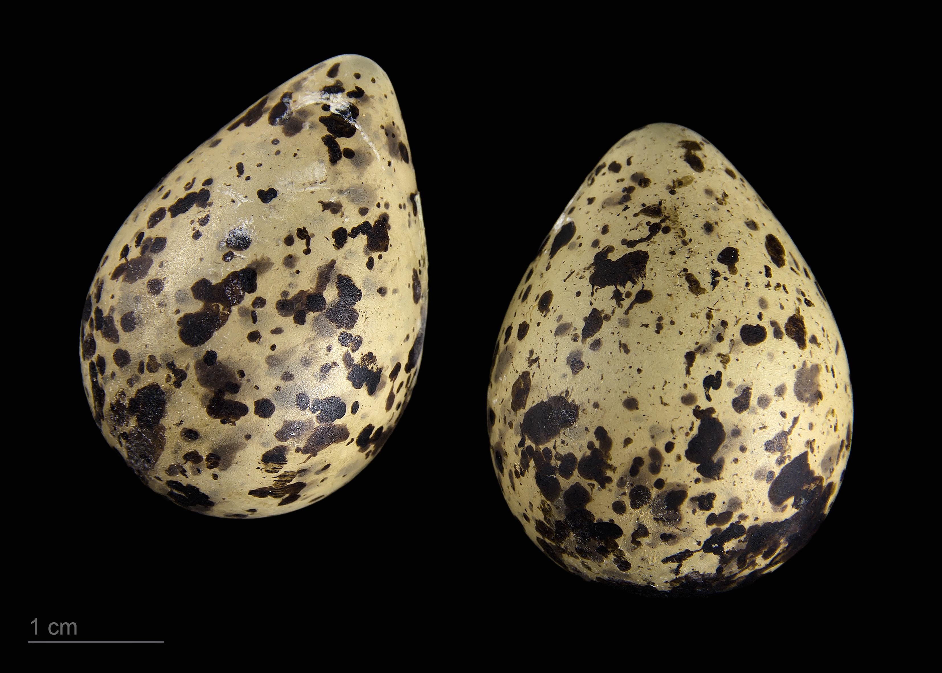 Eggs of red-necked phalarope Two specimens of the same spawn ; collection of Jacques Perrin de Brichambaut.